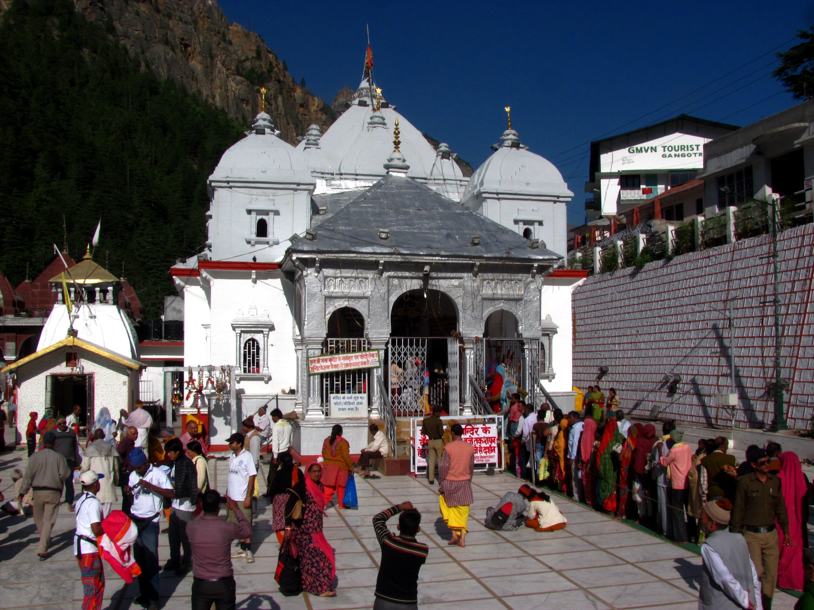 This is well known Gangotri Temple,situated at the height of 10,000ft.(almost) in Garhwal himalaya, Uttarakhand, India. This is one of the most popular pilgrim places for char dham jatra.